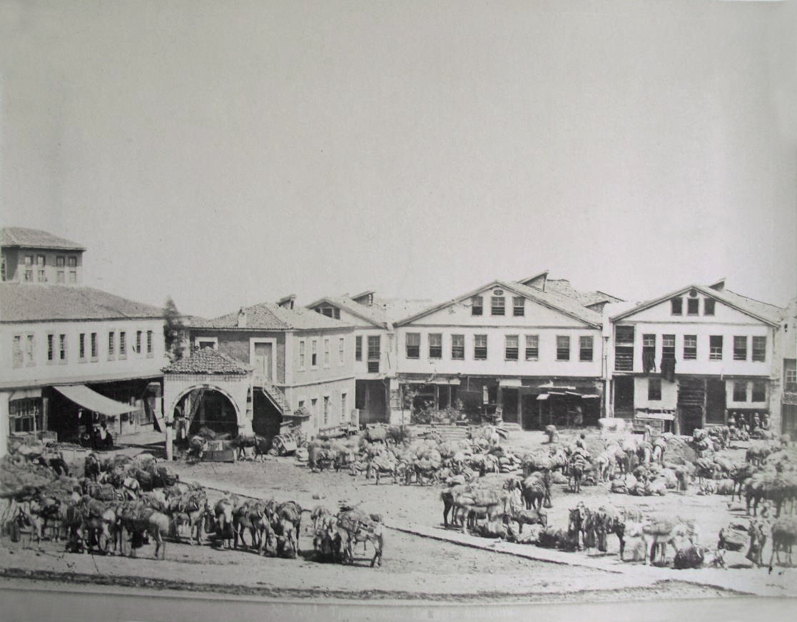 Photograph of Trebizond (Trabzon, Turkey) by Dmitri Ivanovich Ermakov .